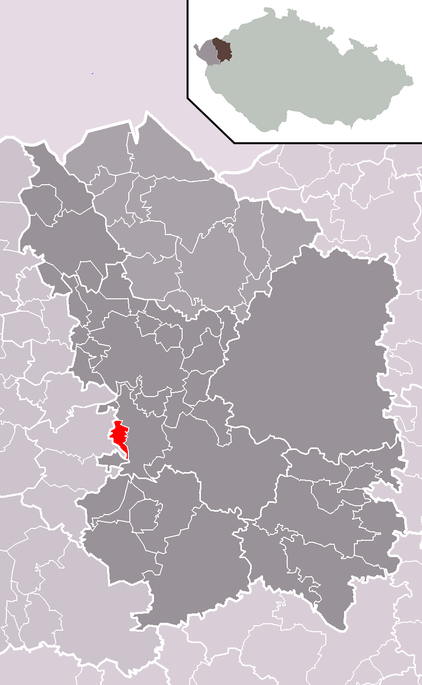 Location of Teplička municipality within Karlovy Vary District and administrative area of Karlovy Vary as a Municipality with Extended Competence.